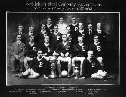 Bethlehem Steel F.C. soccer team, champion of the 1917-18 season, posing with both, the Dewar Cup and American Cup trophies.